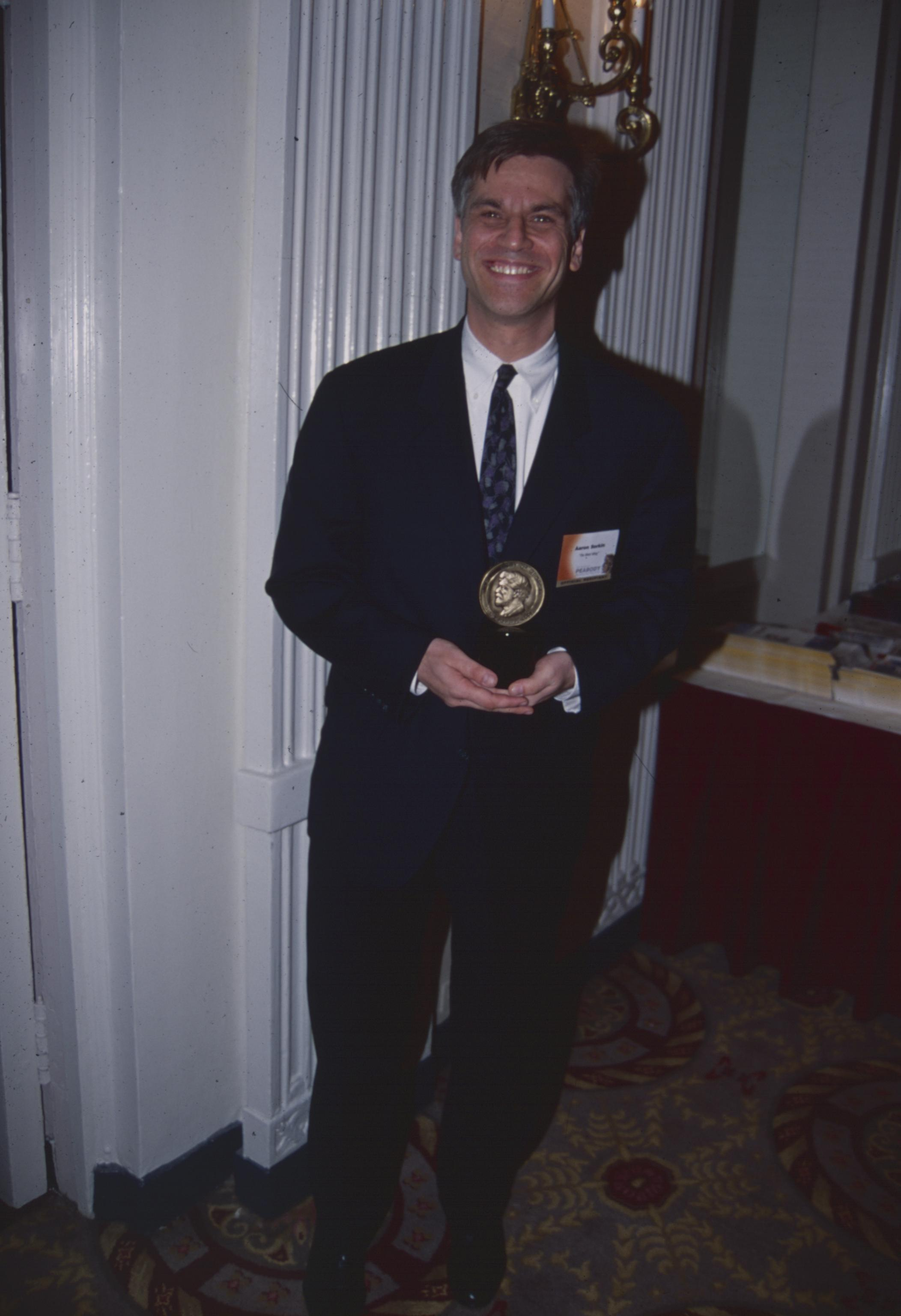 Photos by Patrick McMullan Aaron Sorkin, The 59th Annual Peabody Awards The 59th Annual Peabody Awards The Waldorf=Astoria May 22, 2000